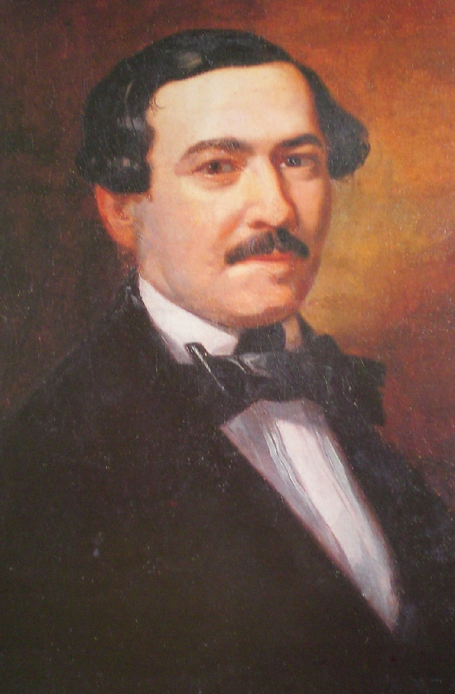 Portrait of Venezuelan writer and historian Rafael María Baralt.